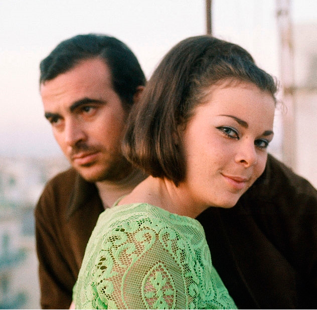 Italian actor and energy healer Maurizio Arena (Maurizio Di Lorenzo) is in company of his girlfriend, Italian Princess Maria Beatrice of Savoy. Ostia (Rome), 1967.